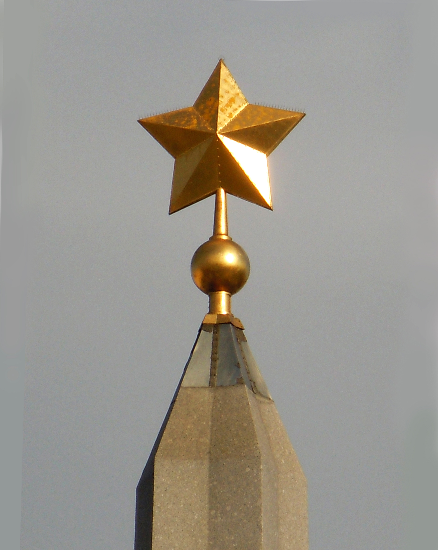 Hero-City Obelisk (Leningrad) — is located in Vosstaniya Square in Saint Petersburg — Leningrad. Installed in May 1985 and the fortieth anniversary of the Victory Day (May 9) in Great Patriotic War. The author of the monument — architects V.S.Lukyanov.